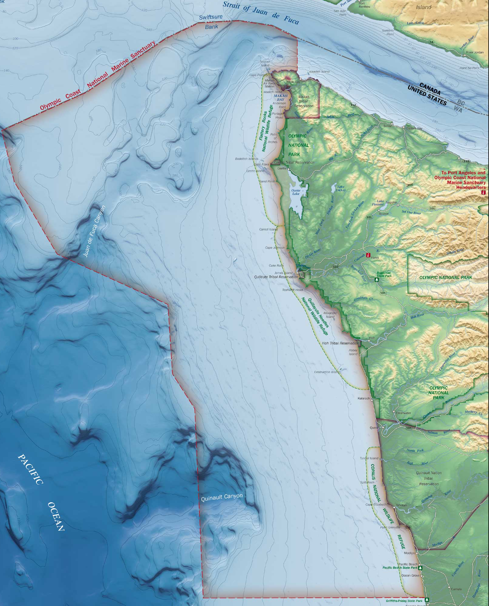 Slightly sliced version of File:Olympic Coast NMS map.jpg, a map of Quinault Canyon, off Washington State, USA.